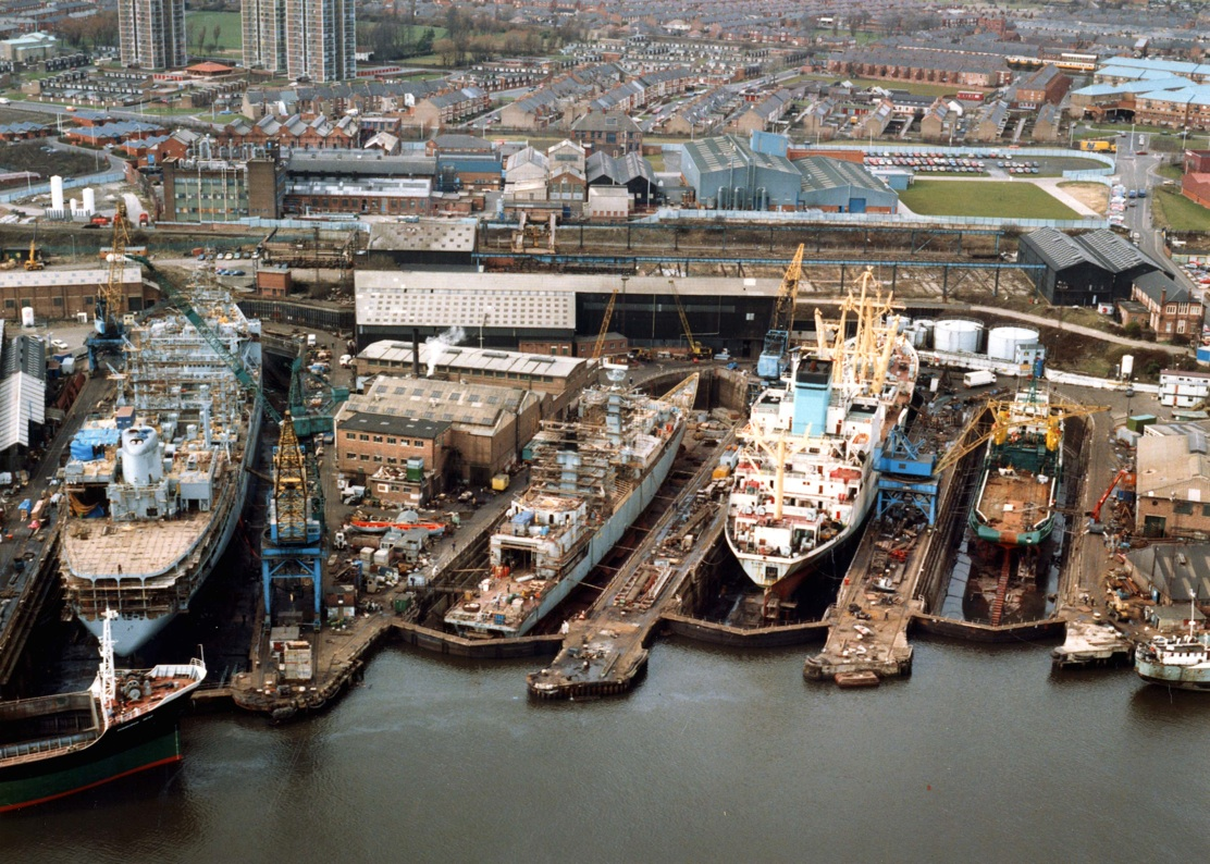 Swan Hunters dry docks, Wallsend 26th March 1987. From left to right the docks hold a Royal Fleet Auxiliary tanker, a Royal Navy warship, a Nigerian registered cargo vessel and an off shore supply vessel. Reference Number: TWAS: DS.SWH.5.3.1.12.6 (Copyright) We're happy for you to share this digital image within the spirit of The Commons. Please cite 'Tyne & Wear Archives & Museums' when reusing. Certain restrictions on high quality reproductions and commercial use of the original physical version apply though; if you're unsure please . To purchase a hi-res copy please quoting the title and reference number.